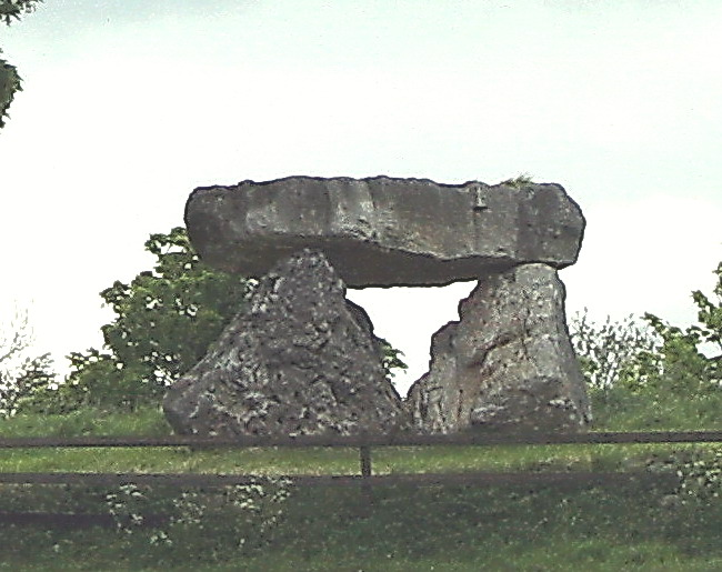 Newly constructed megalith in Cadamstown